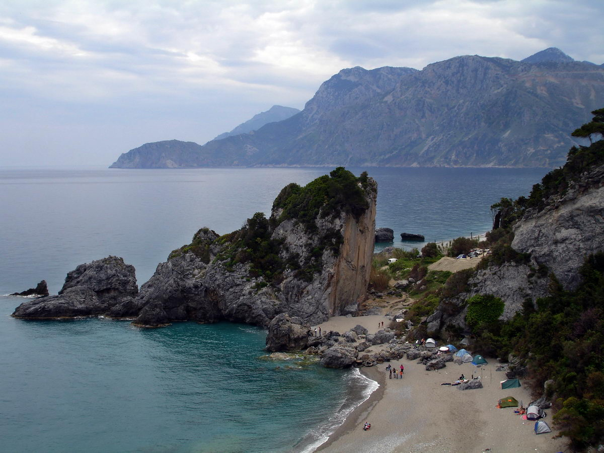 The nudist beach of Chiliadou in Euboea, Greece